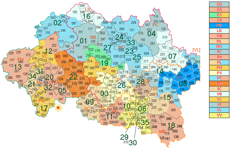 Map of the French department of Allier with arrondissements, cantons, and communes boundaries, cantons and communes numbers, intercommunal areas (letter codes) and linguistic information (blue shades: French speaking areas, orange-yellow: Occitan speaking areas)